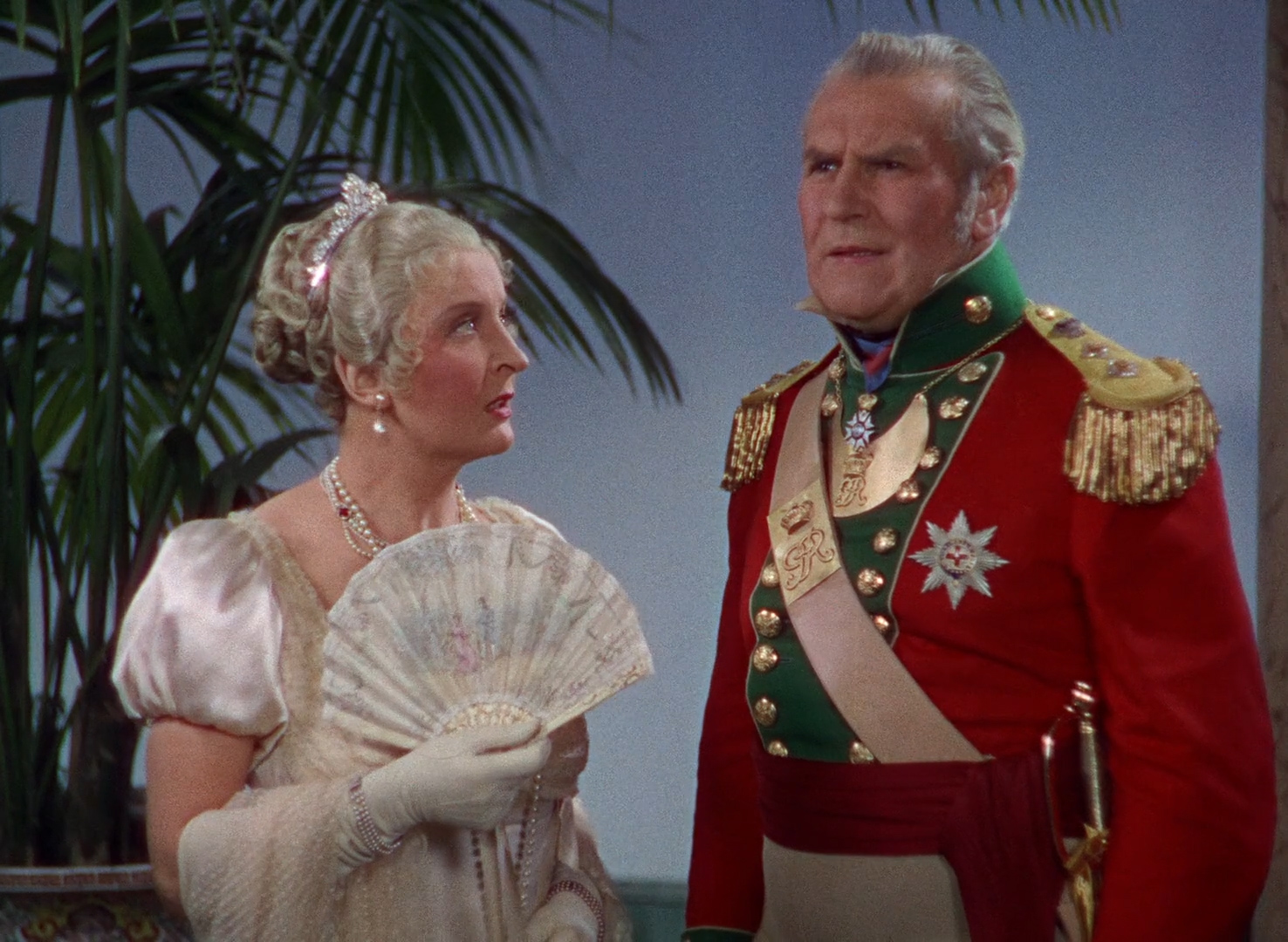 Doris Lloyd & Charles Richman in Becky Sharp (cropped screenshot)